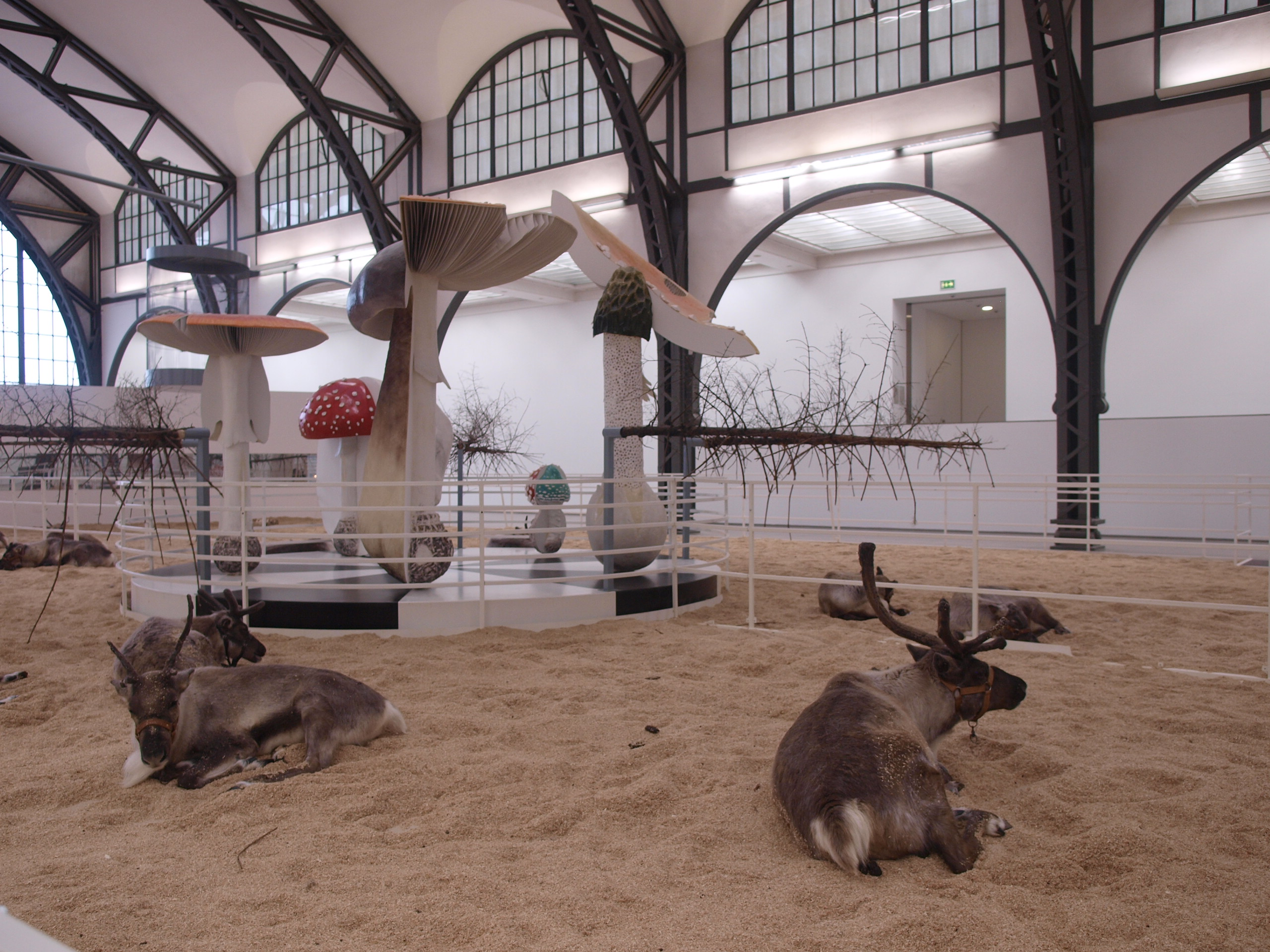 The photo 5363340124_910b99b8a3_b.jpg is © 2011 Tomislav Medak, used under a Creative Commons Attribution-Noncommercial license: Hamburger Bahnhof :: Carsten Höller :: Soma